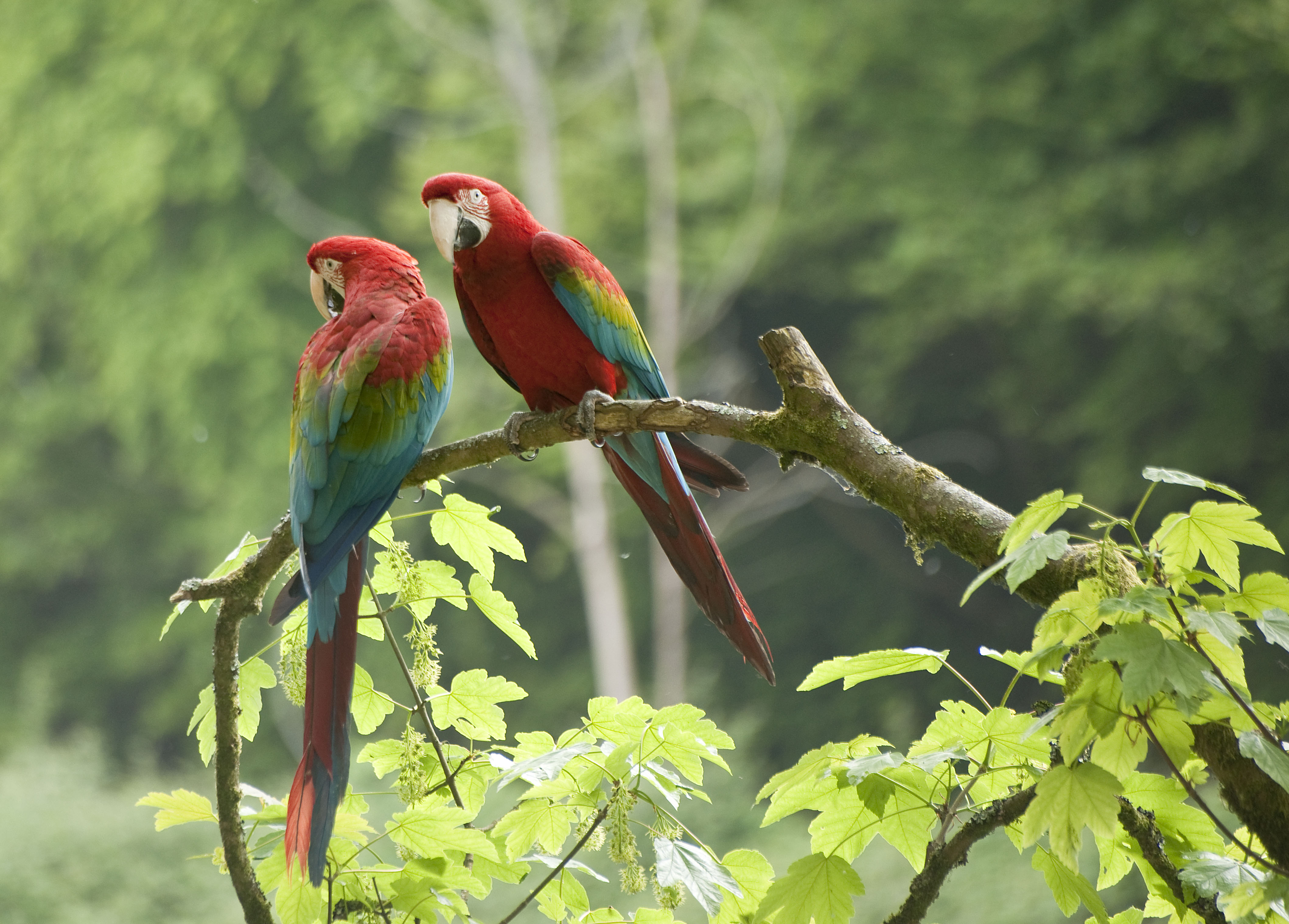 Red-and-green Macaws at Pont-Scorff Zoo, Morbihan, Brittany, France.